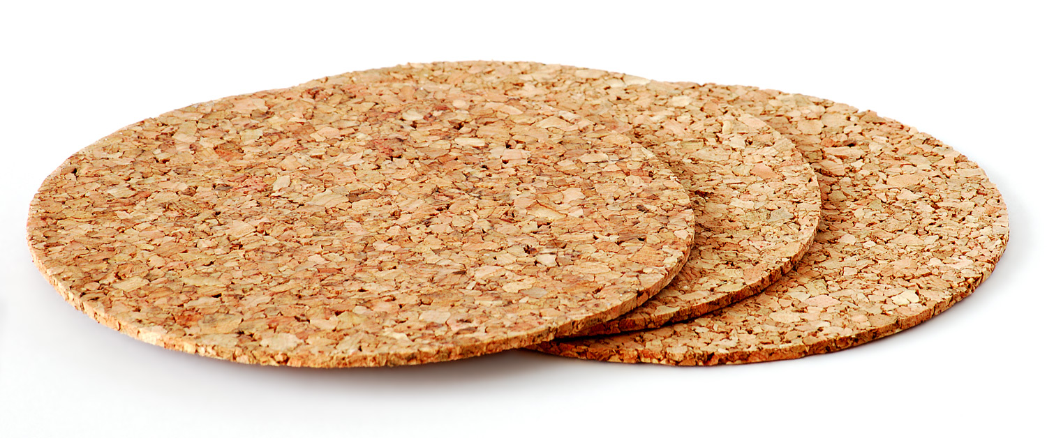 This image shows three cork coaster.